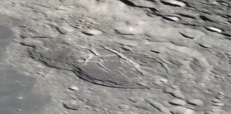 Oblique view of Komarov, on the moon.